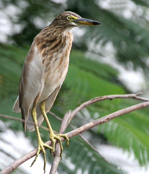 Indian Pond Heron Ardeola grayii in Kolkata, West Bengal, India.